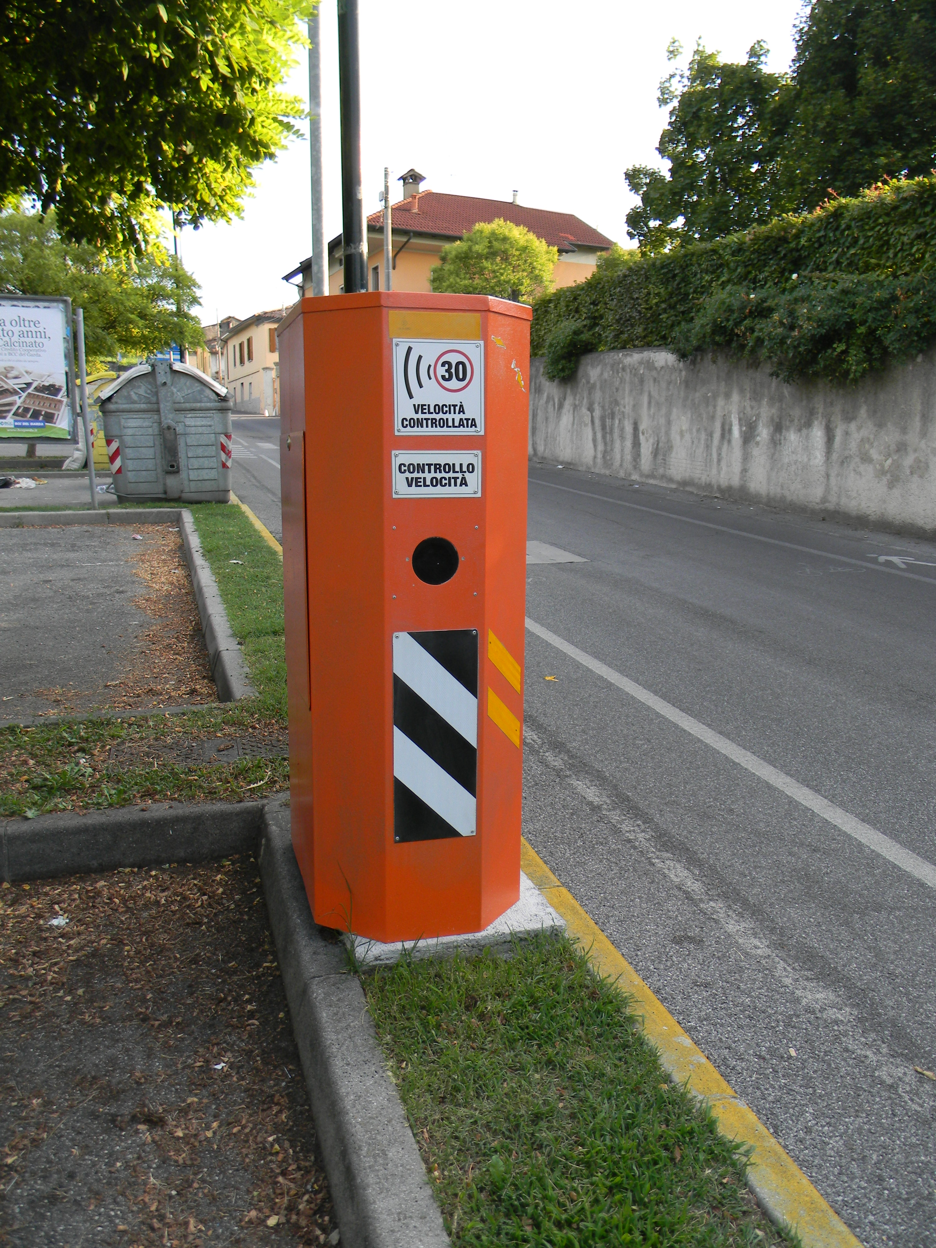 Speed camera in Italy.